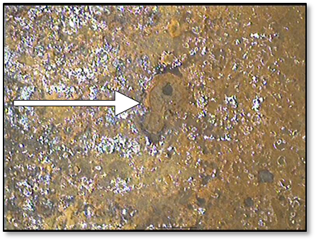 A high-resolution camera image of pitting corrosion discovered during an NDT examination.